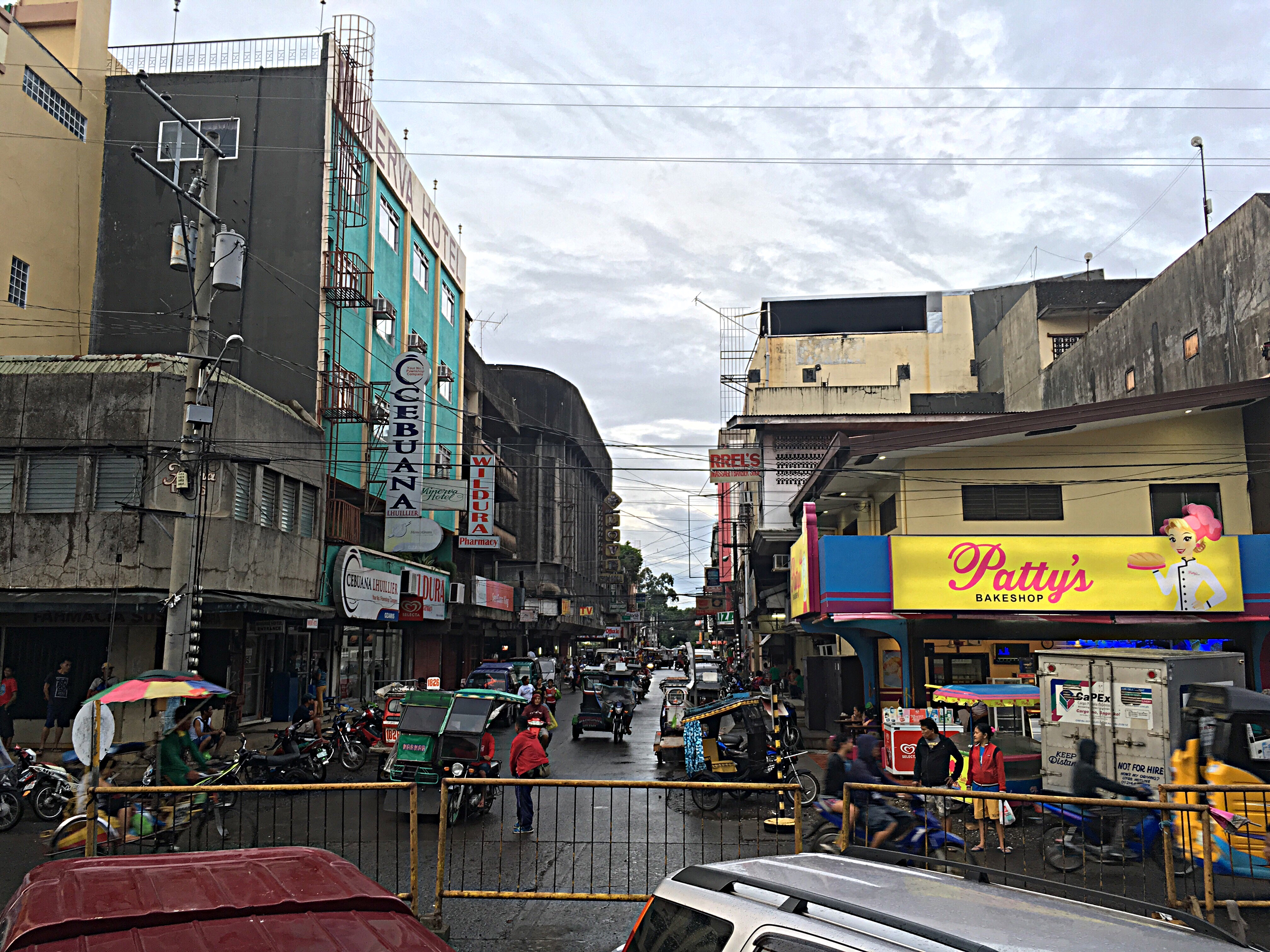 Ozamiz, Philippines - July 2016